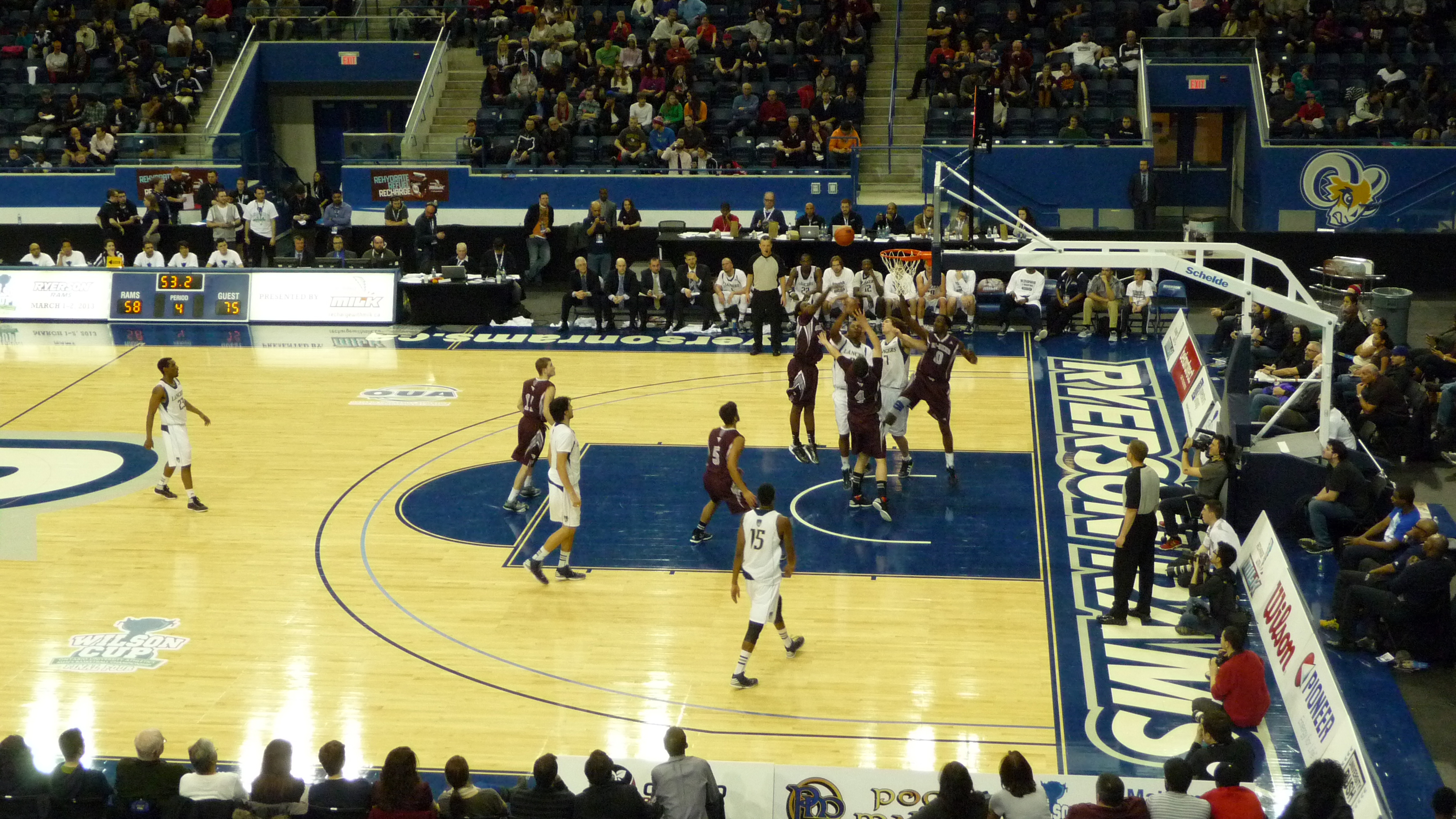 The 2013 Wilson Cup semifinal game between the Ottawa Gee Gees and the Windsor Lancers at the Mattamy Athletic Centre.